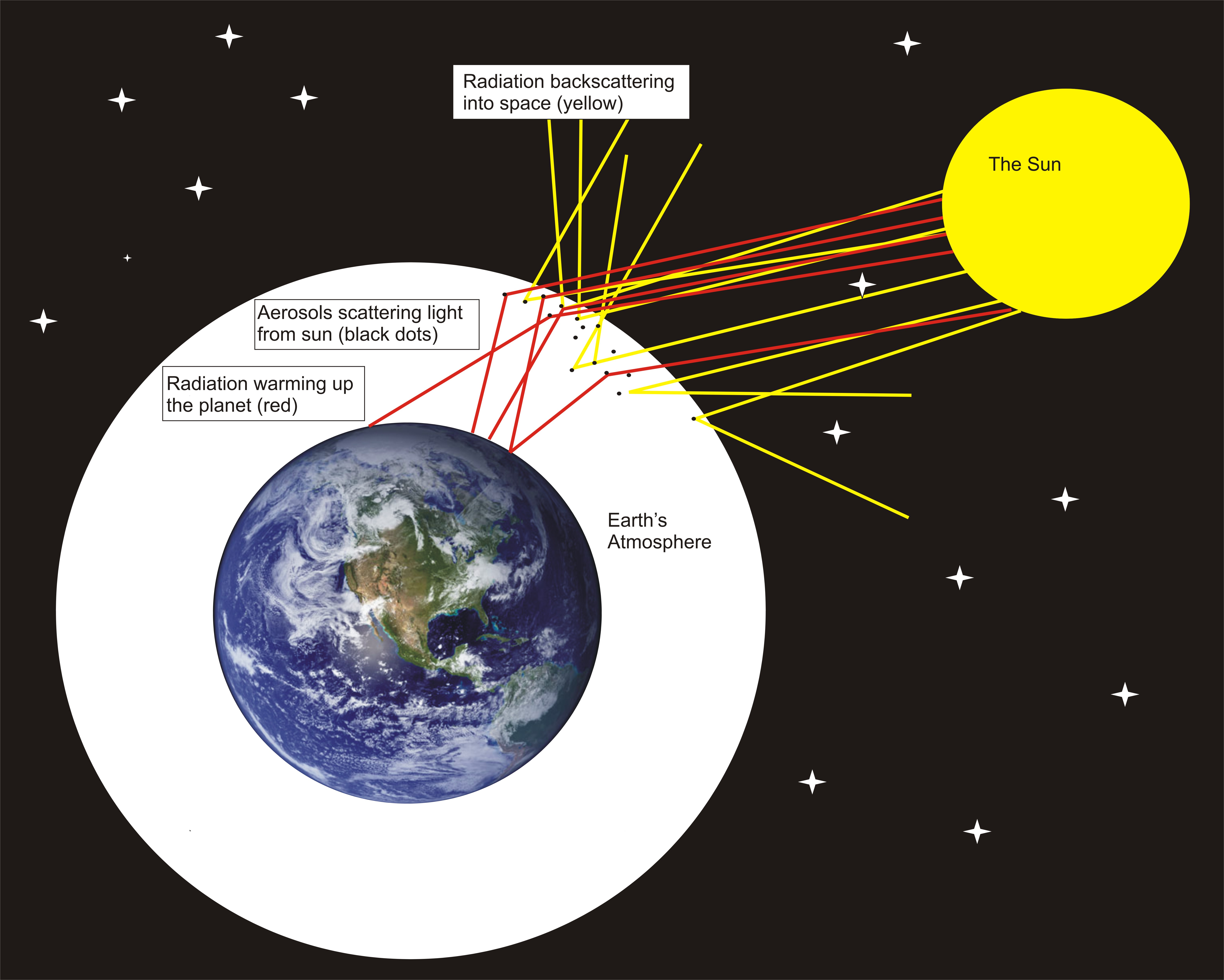 This image shows how aerosols can reflect solar radiation back into space altering the earth's radiation balance, this affect is measured by nephelometers.